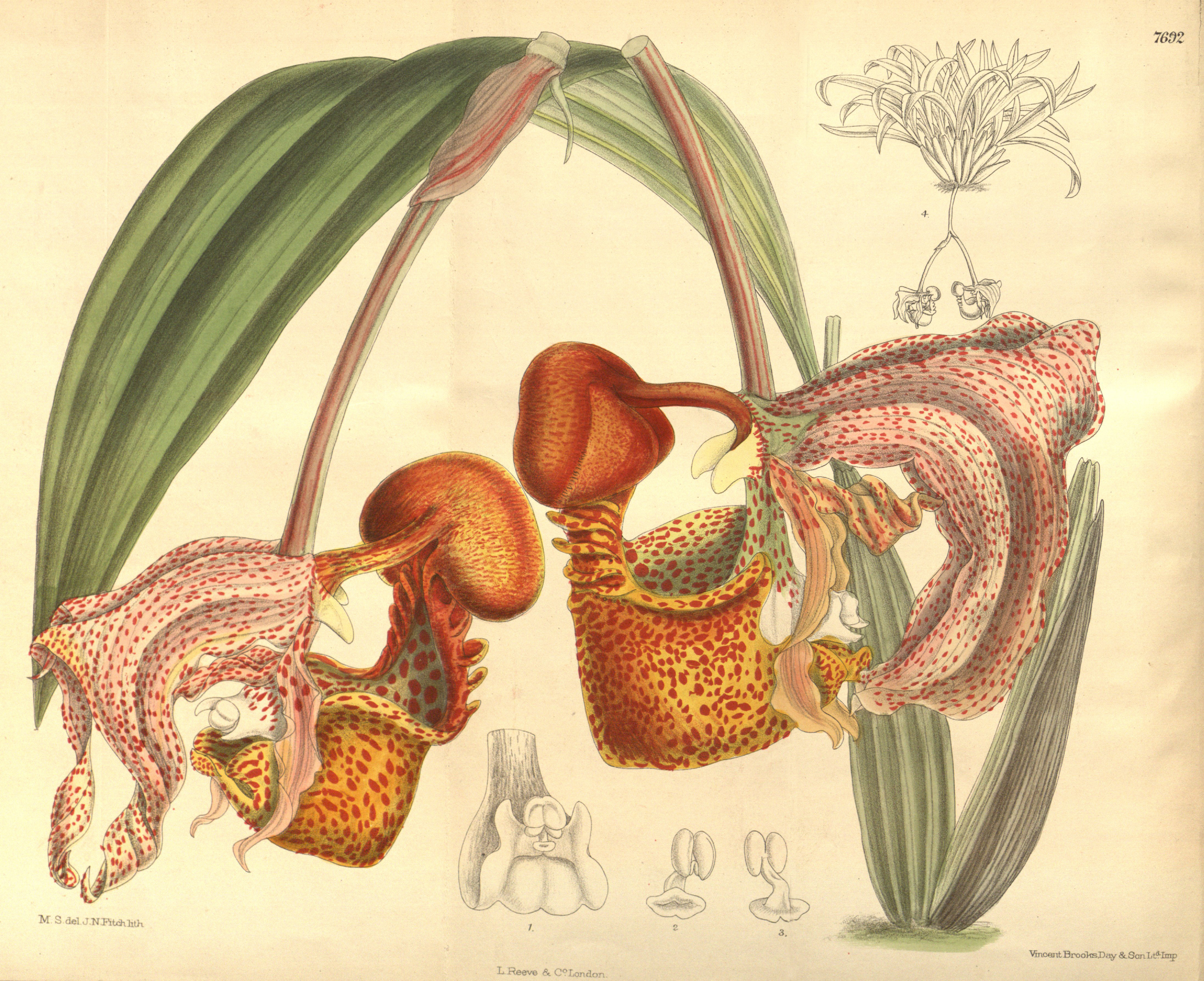 Illustration of Coryanthes macrantha